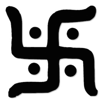 This Is The Symobol Which Is Widely Used To Denote Hinduism.